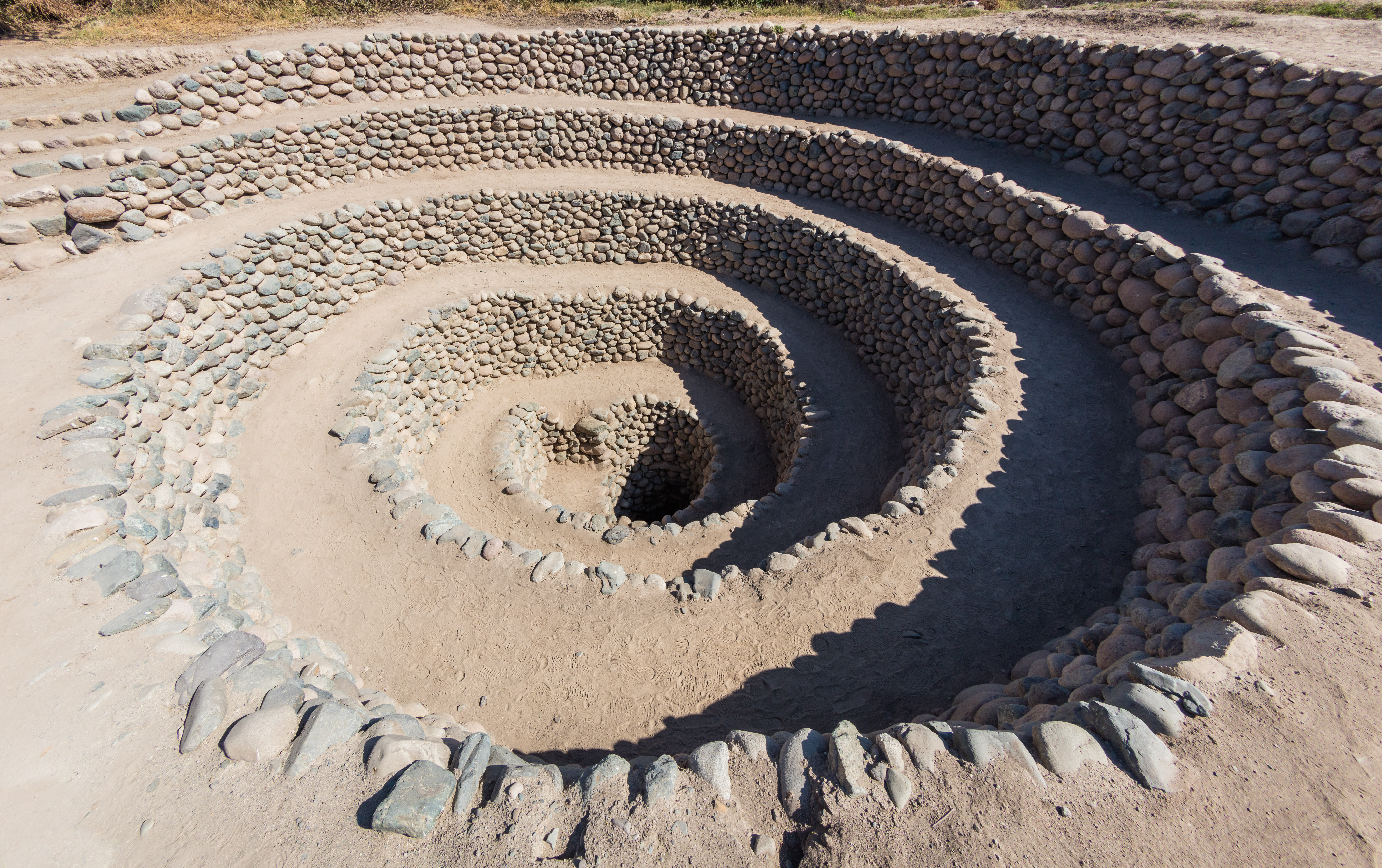 Cantalloc subterranean aqueducts, Nazca, Peru